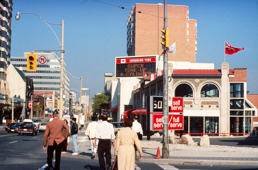 Looking north on Yonge Street, at Church Street, towards a Canadian Tire store. Toronto, Ontario, Canada.